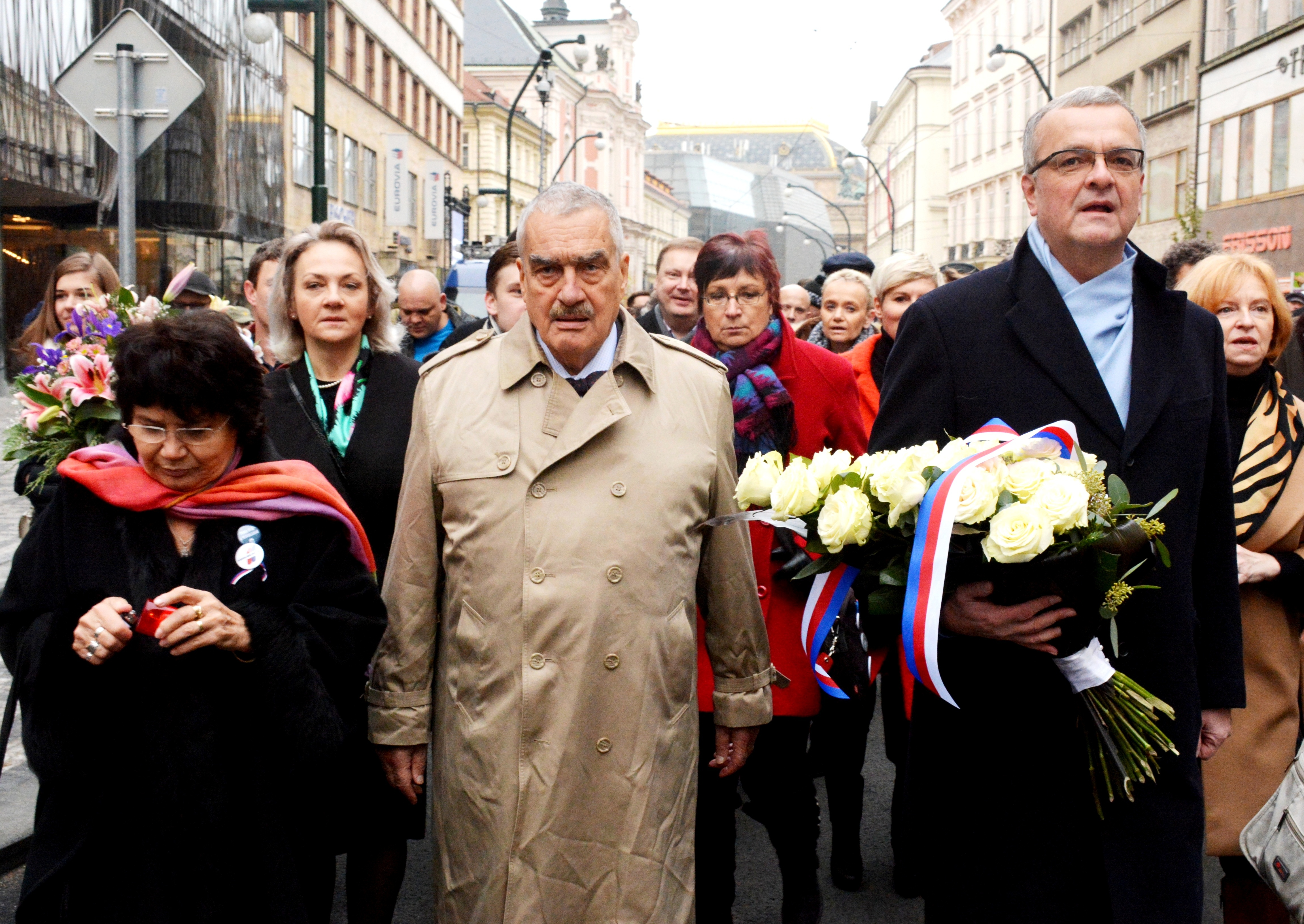 Karel Schwarzenberg and Miroslav Kalousek, Czech politicians